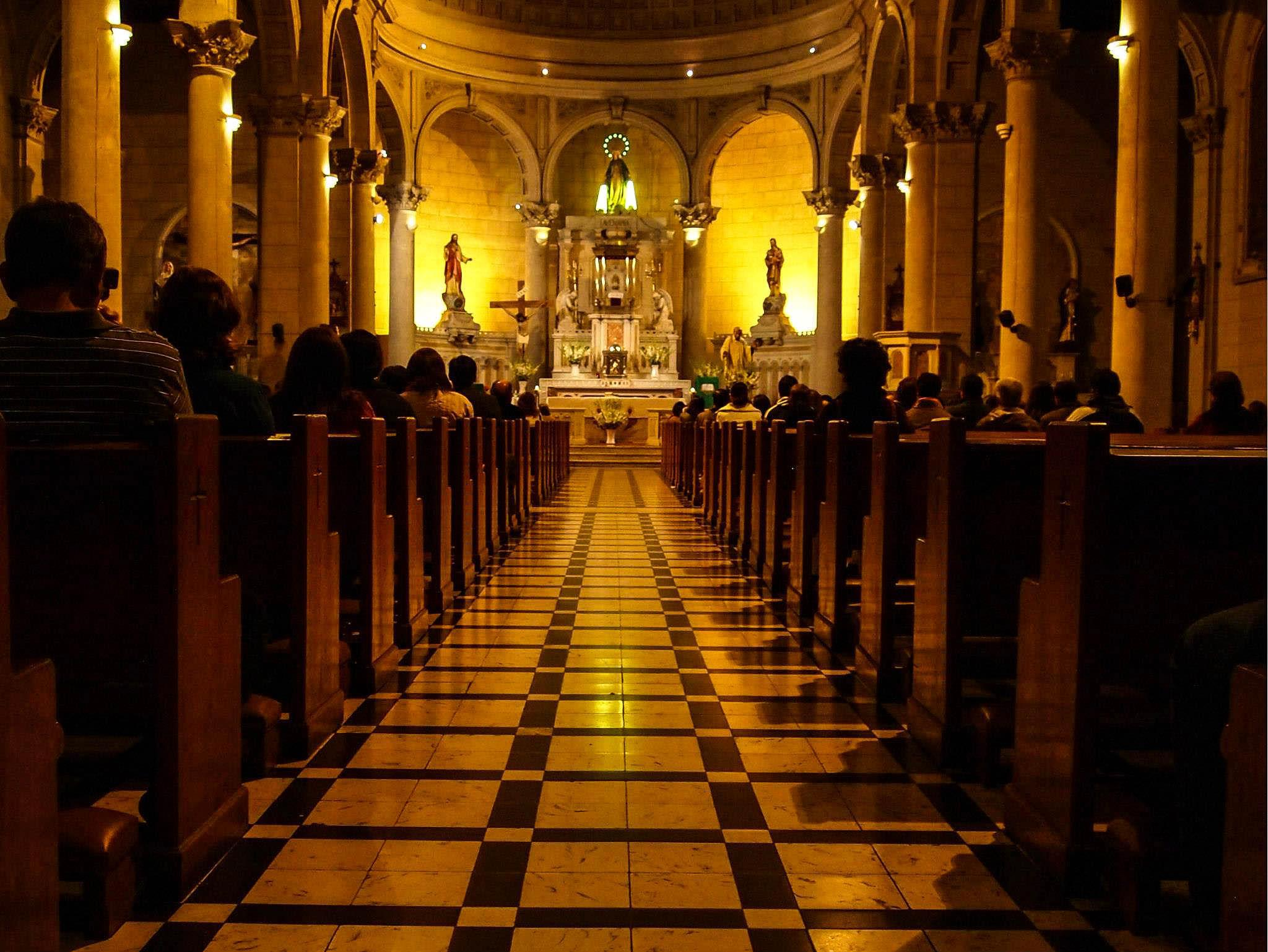 Iglesia Virgen Milagrosa